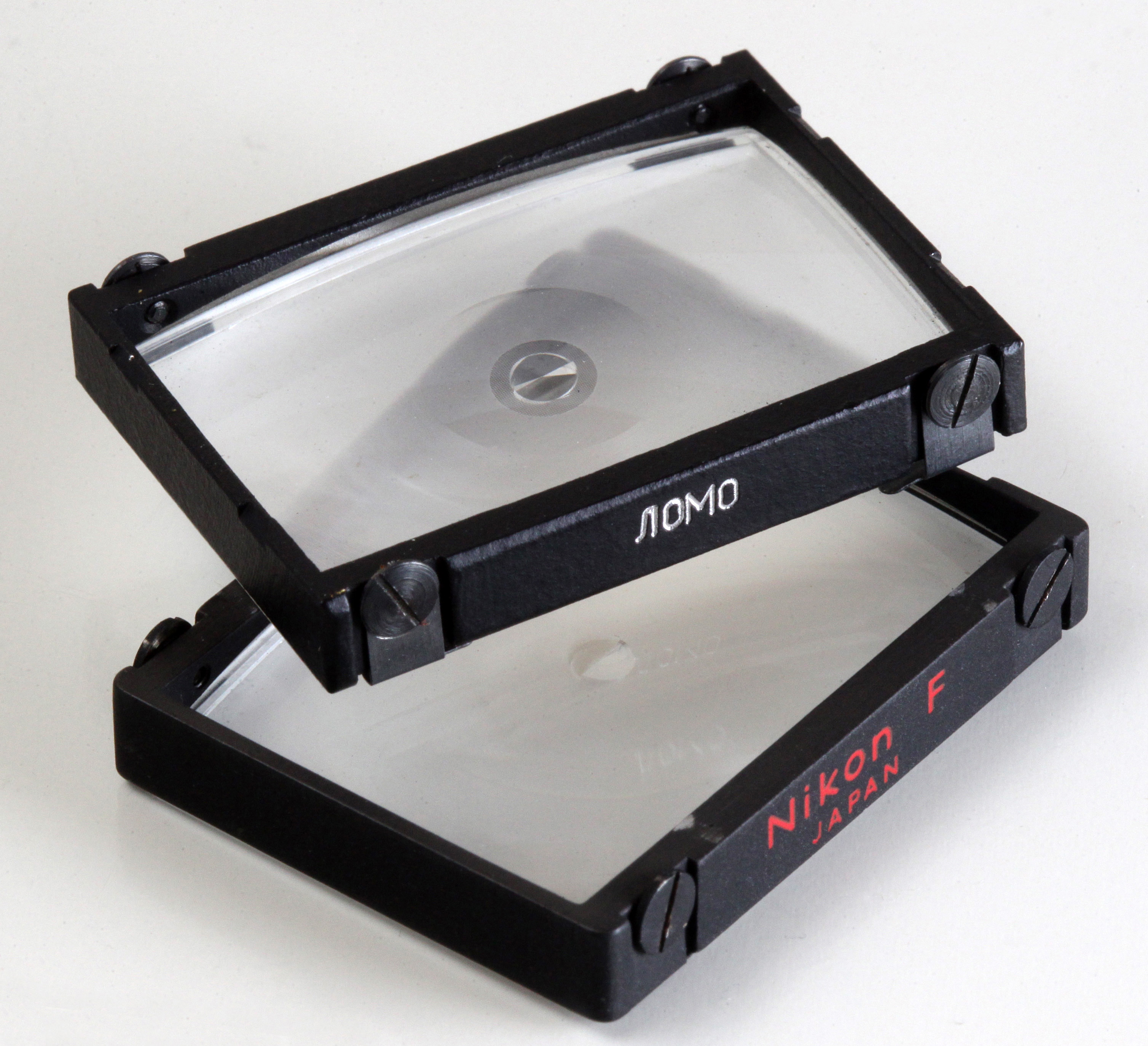 Almaz-103 (top) and Nikon F (bottom) SLR's focusing screen comparasion